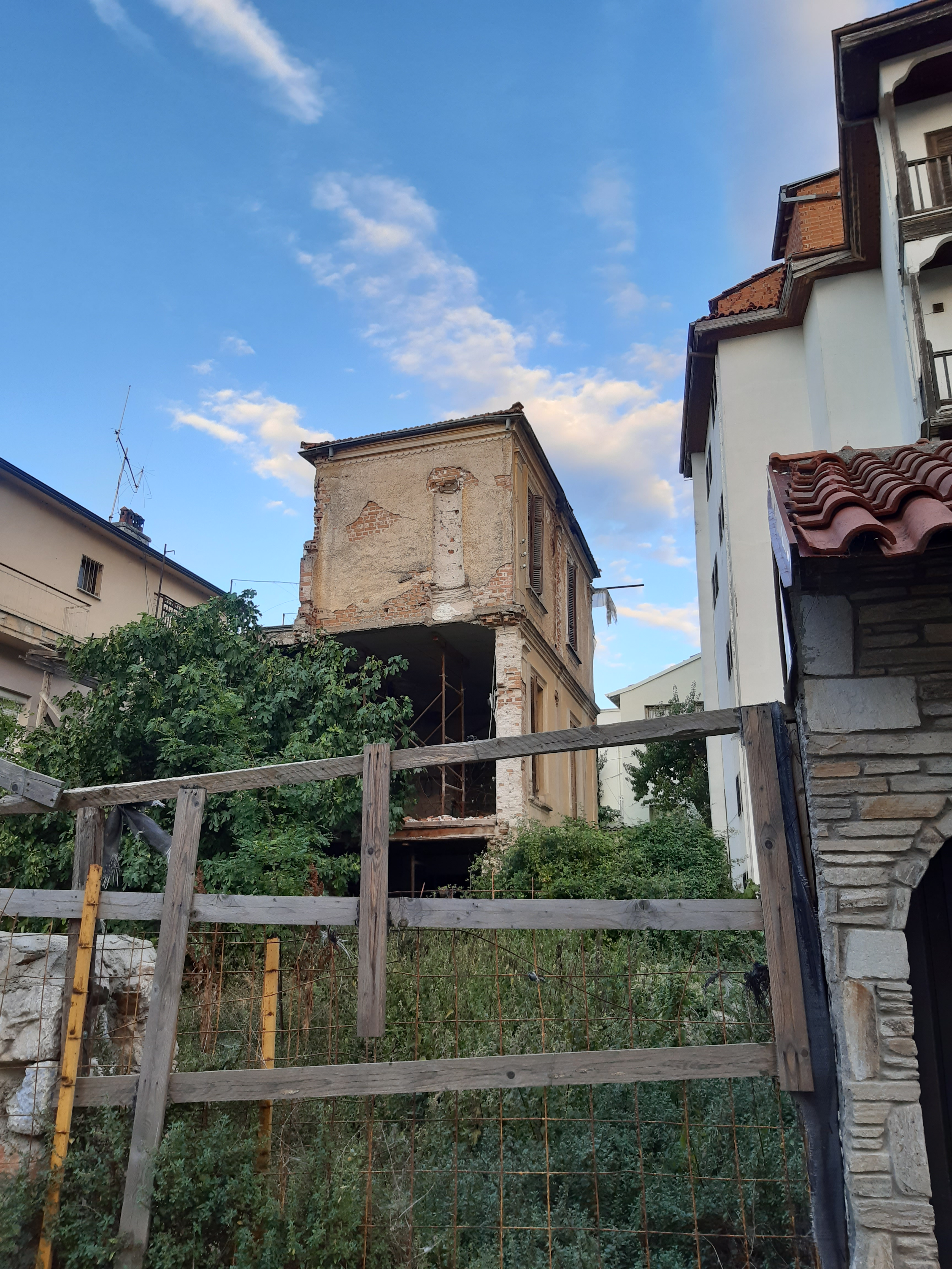 Papachristos Mansion